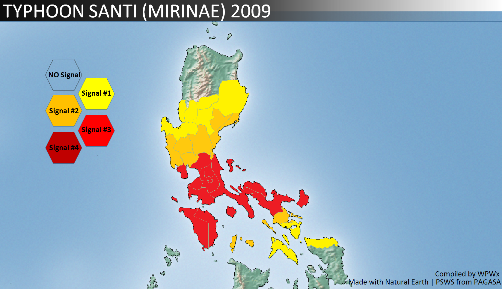 Highest PSWS raised as Santi passes Southern Luzon